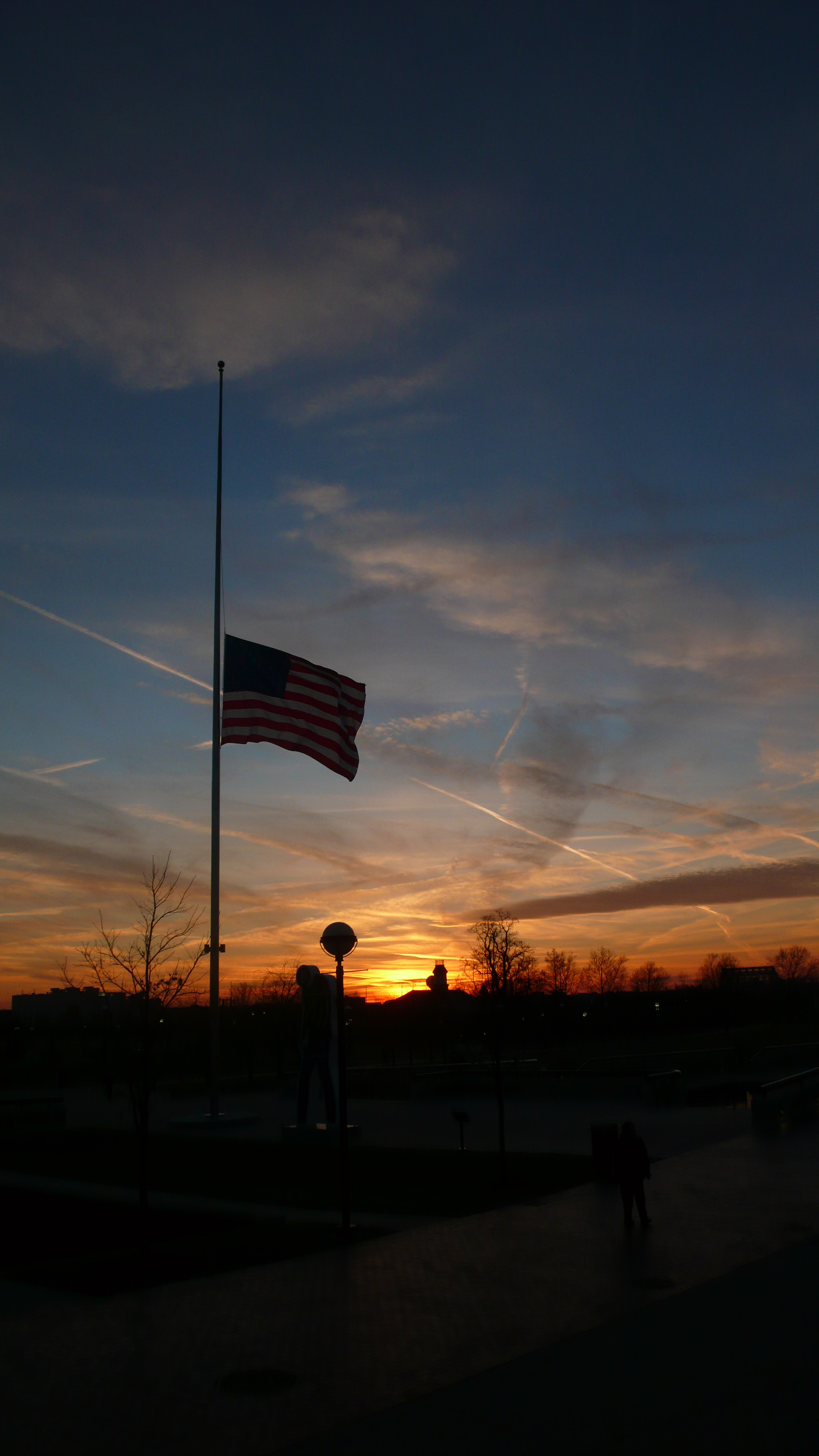 US flag flying at half-staff at sunset in White River State Park, Indianapolis, Indiana, United States.